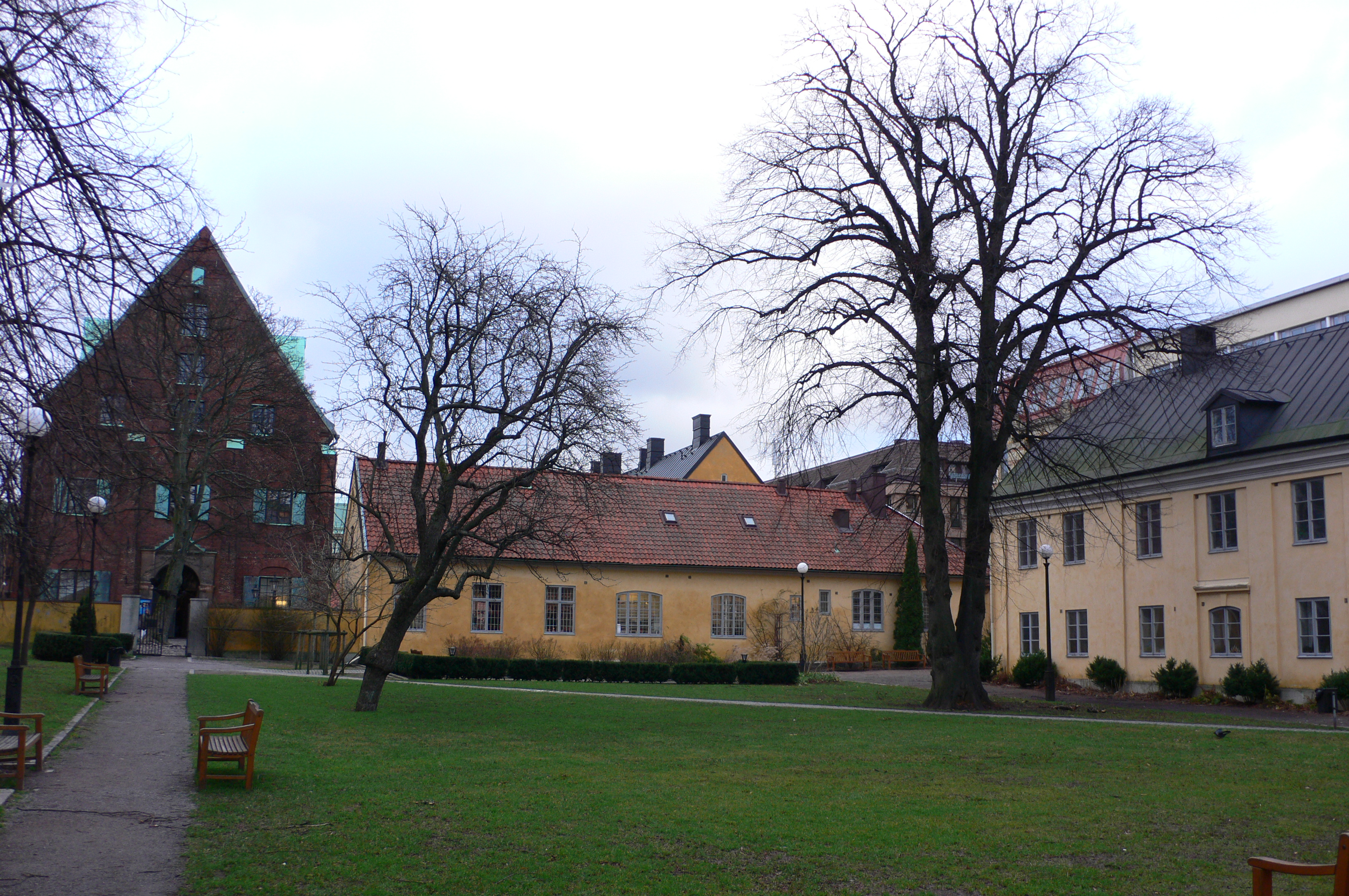 This photo is licenced under Creative commons for use including commercial on condition that you link back to or credit See my profile for more detail.